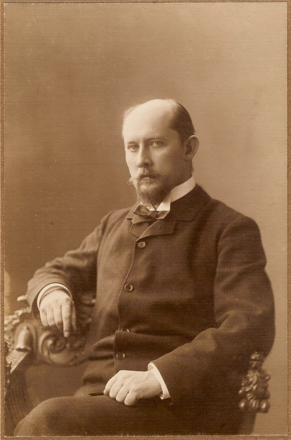 John Forssman (1868-1947), Swedish doctor and professor in pathology and bacteriology at Lund University, Sweden.